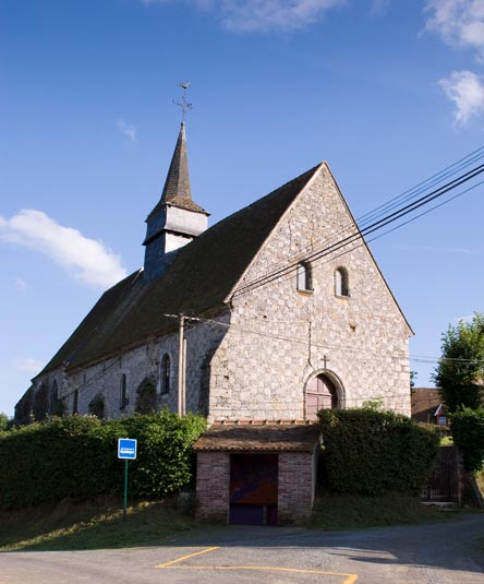 Haucourt's church